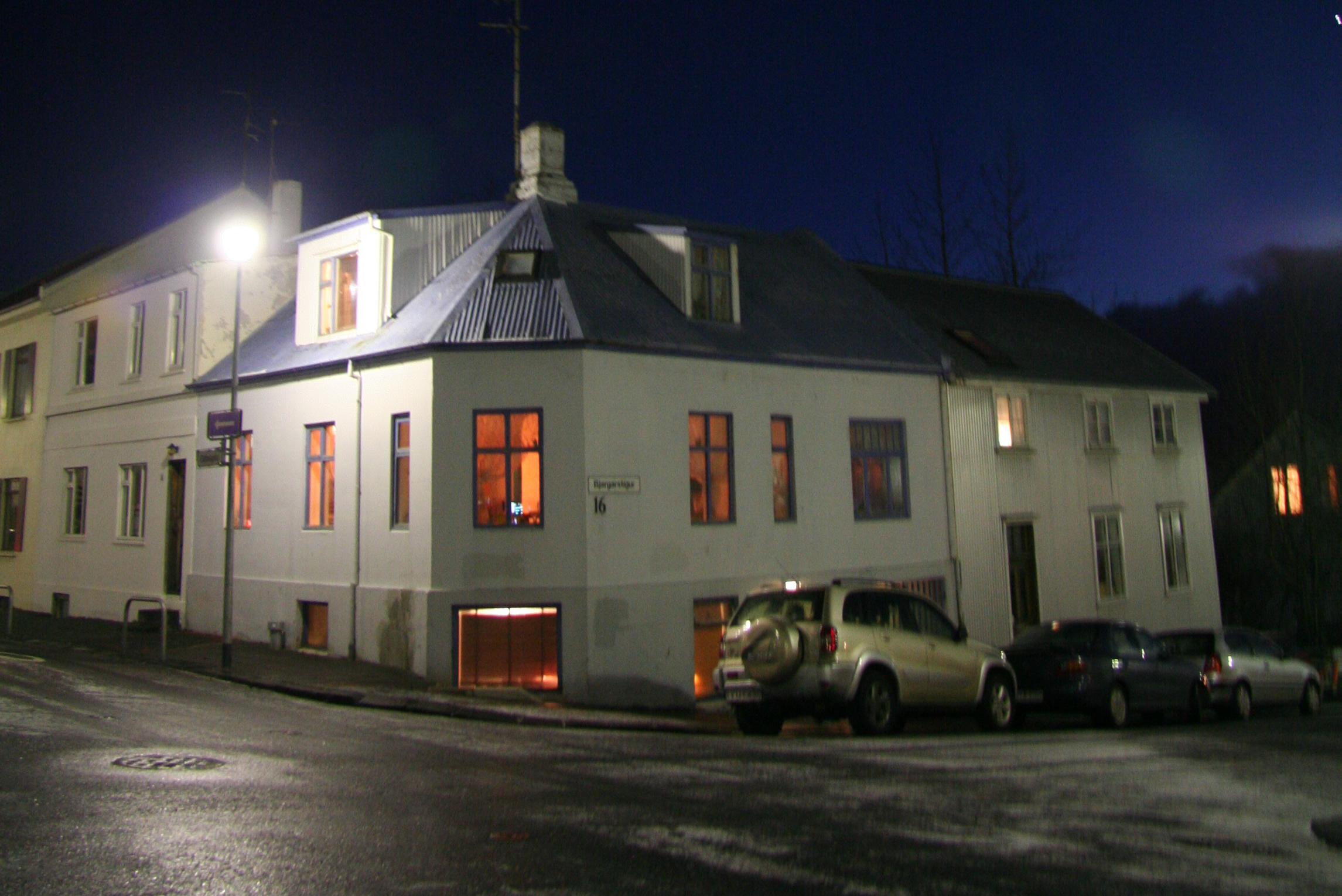 Back in Reykjavik. We actually get to see the moon. Though not the northern lights. :(